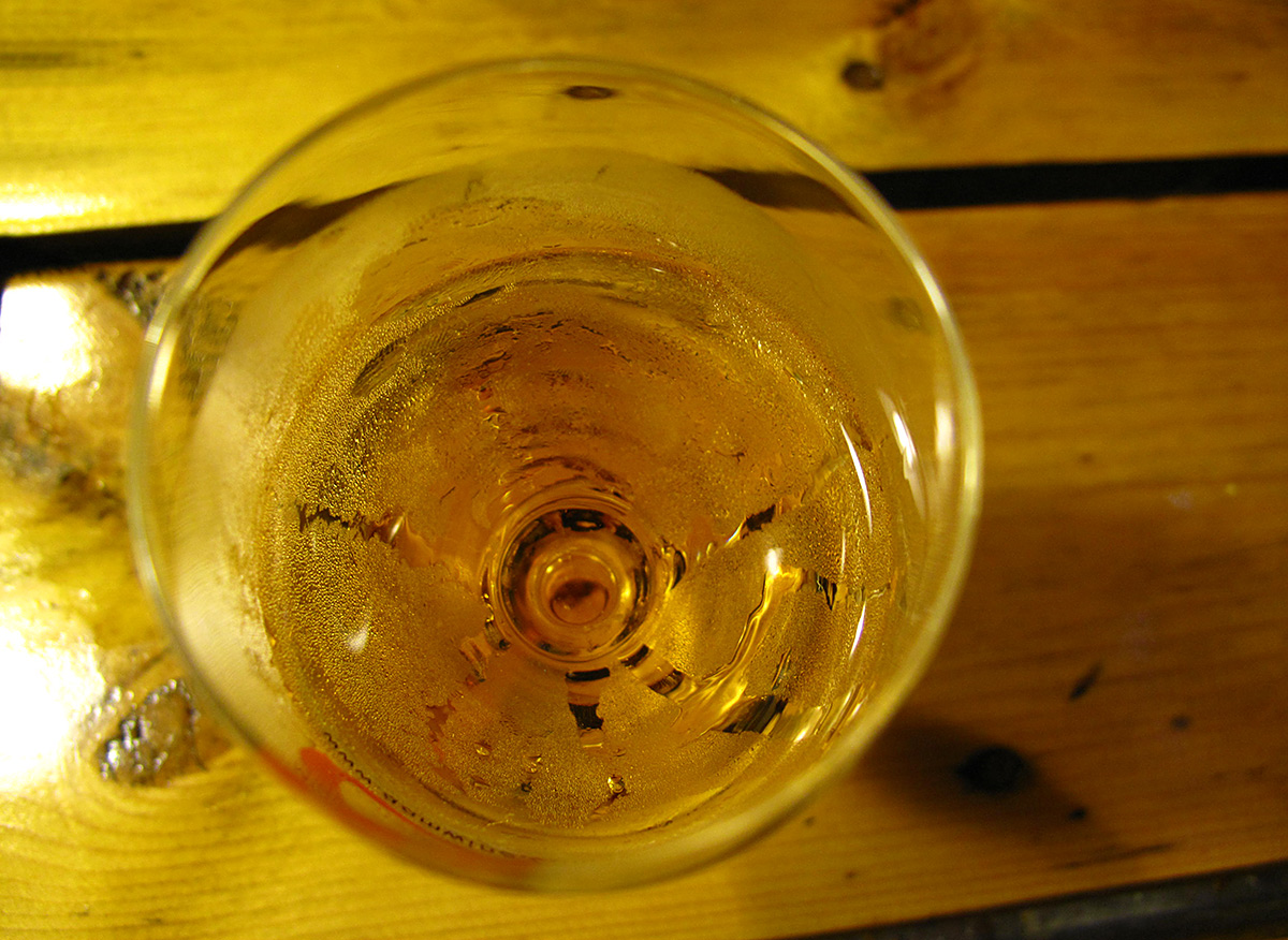 Persimmon Wine in the Daegu Wine Tunnel Winery, South Korea